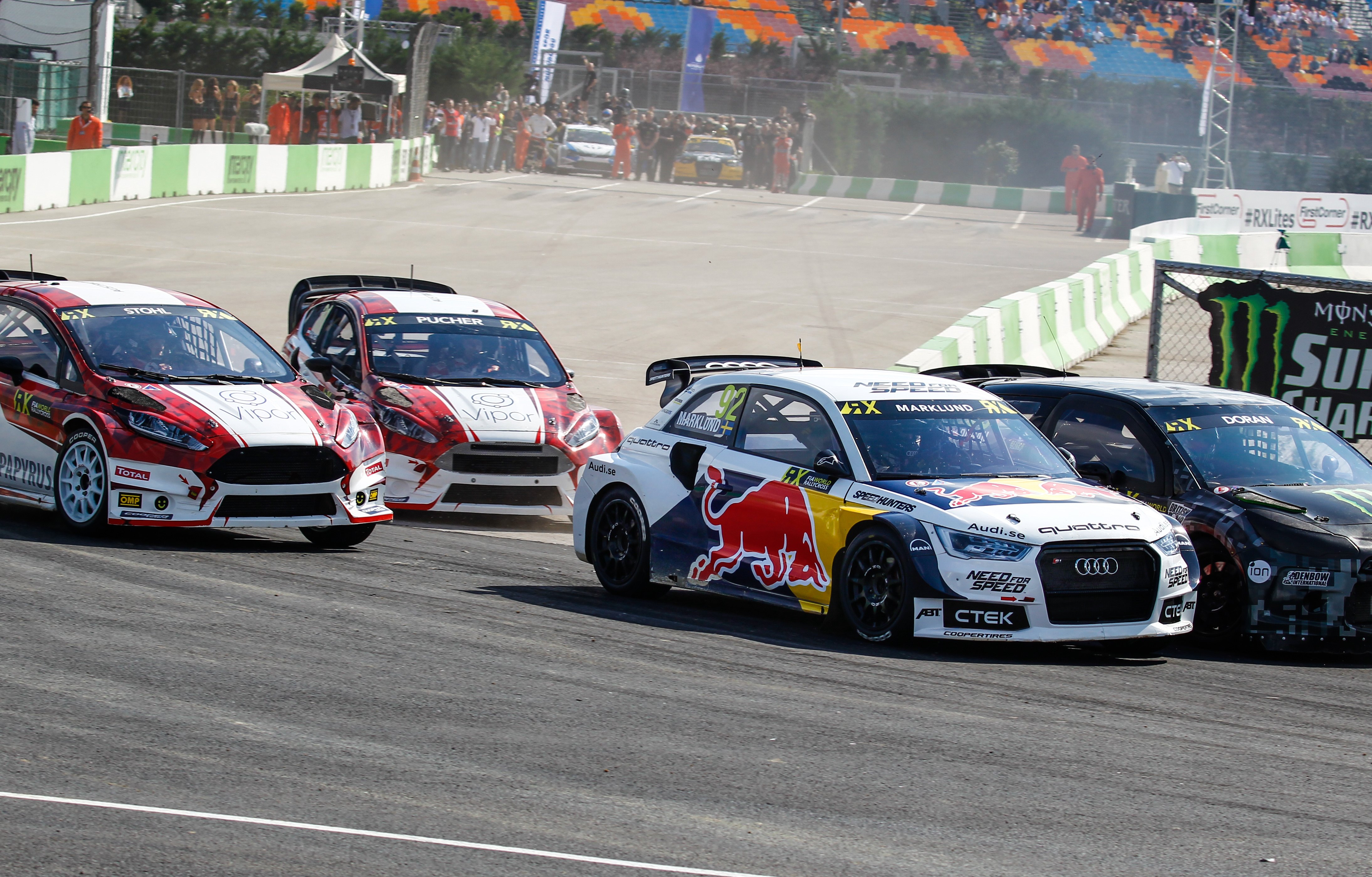 2015 FIA World Rallycross Championship // Round 11 // Istanbul, Turkey // 2-4 October 2015 // Worldwide Copyright: EKS/McKlein